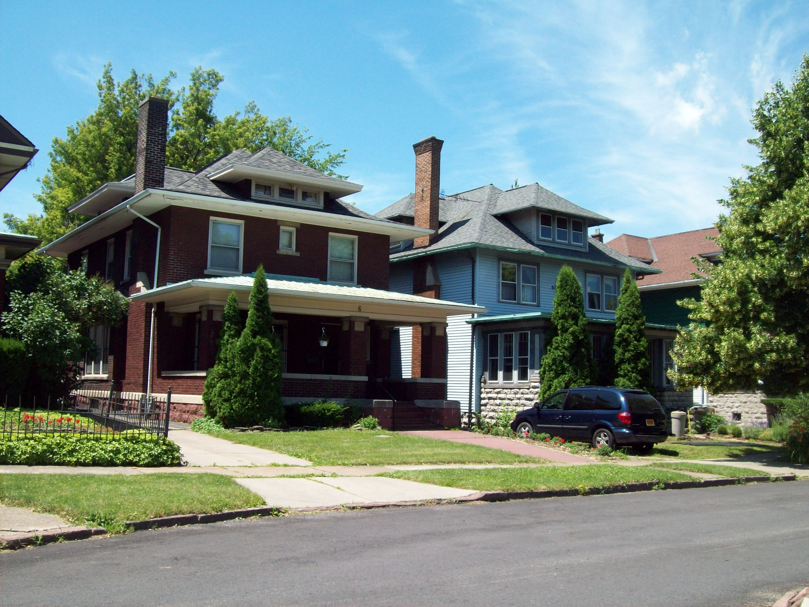 Houses on University Avenue in the University Park Historic District, Buffalo, NY, July 2011